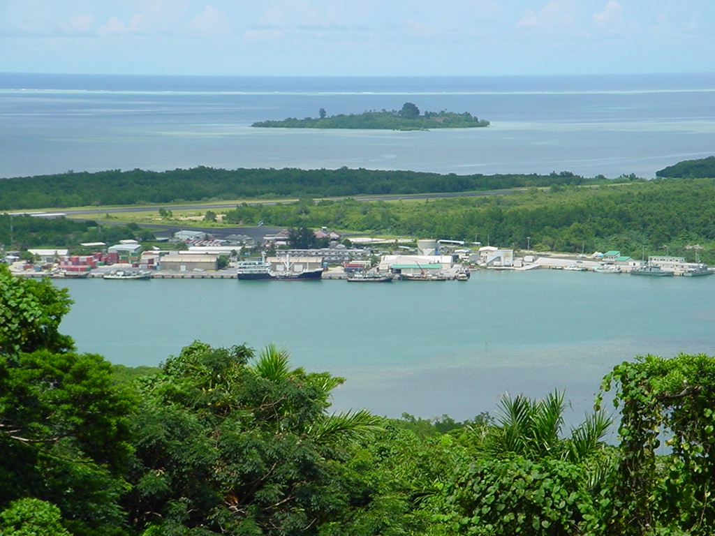 View of Pohnpei International Airport, Pohnpei, Federated States of Micronesia